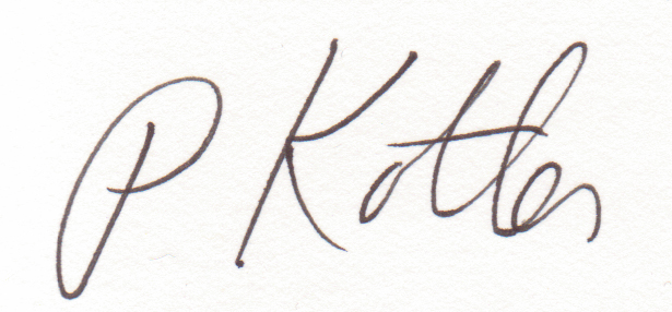 handwritten autograph of Philip Kotler as found in Kotler and Pfoertsch B2B Brand Management book